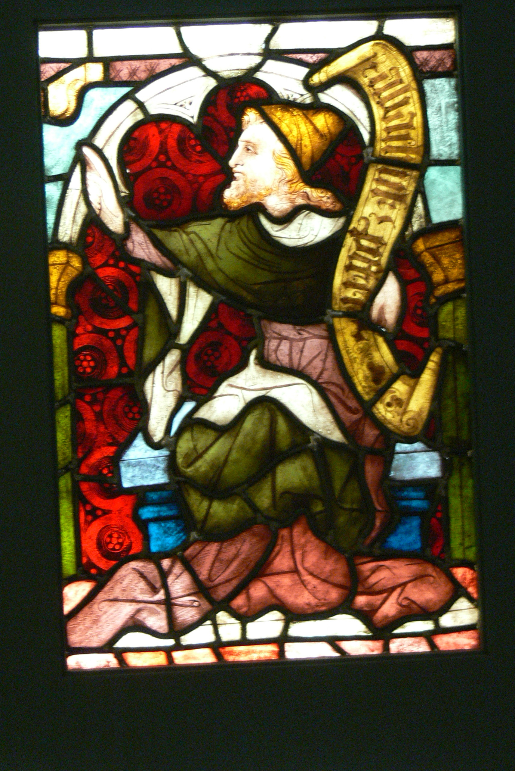 Museum of Mining and Gothic art in Leogang ( Salzburg state ). Gothic collections: Gothic stained glass window ( 15th century ) showing prophet Habakkuk as patron of miners.